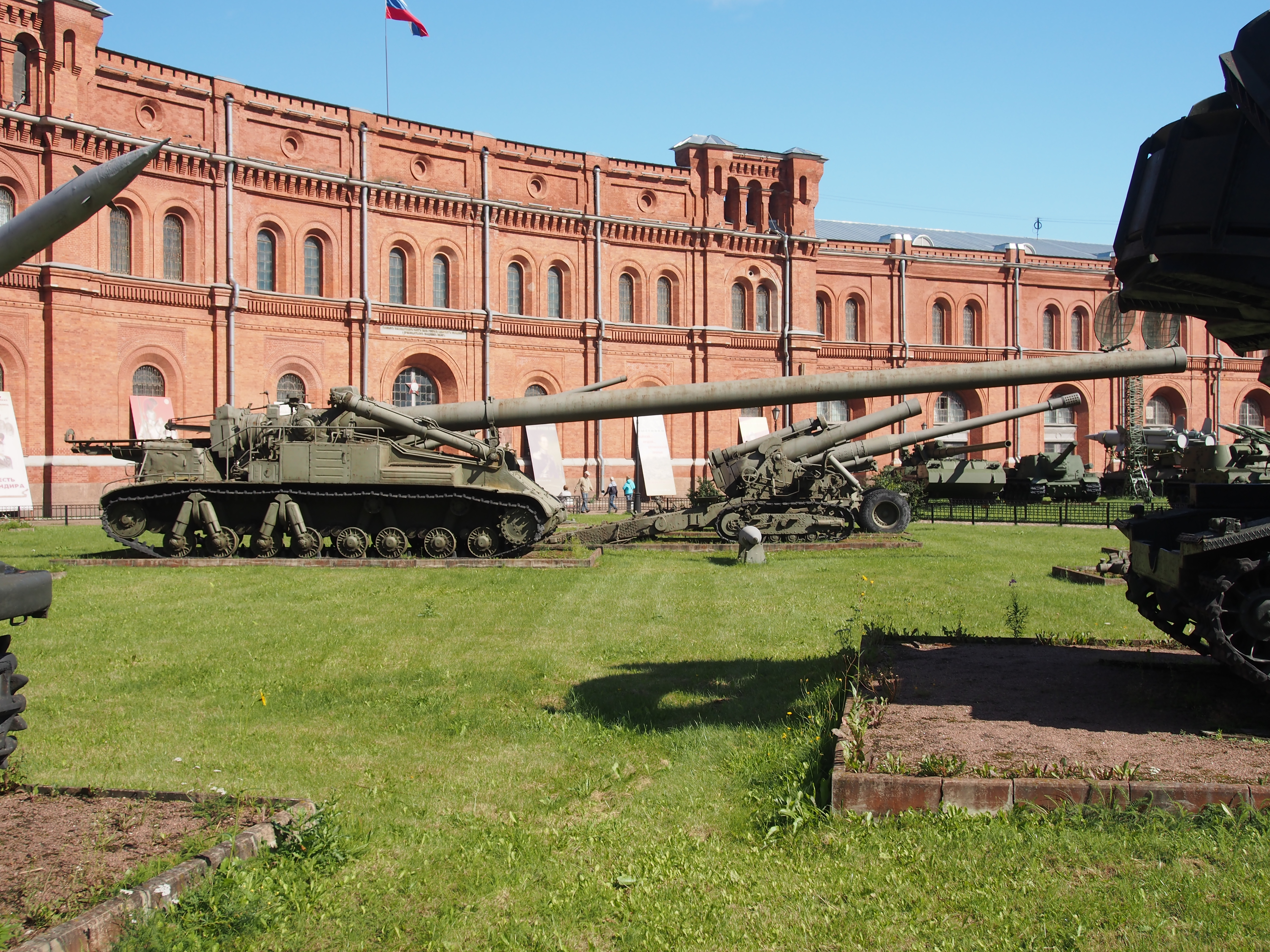 Photographed at the Military-historical Museum of Artillery, Engineer and Signal Corps, Saint Petersburg.